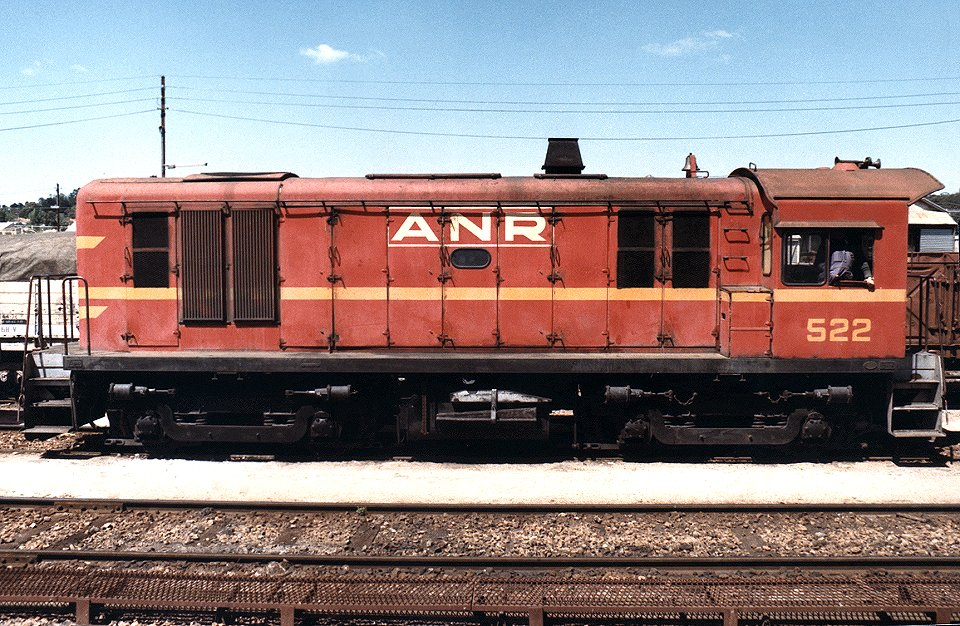 Australian National Railways 500 class shunt engine, road number 522 at Mt Gambier, SA, still in South Australian Railways livery.